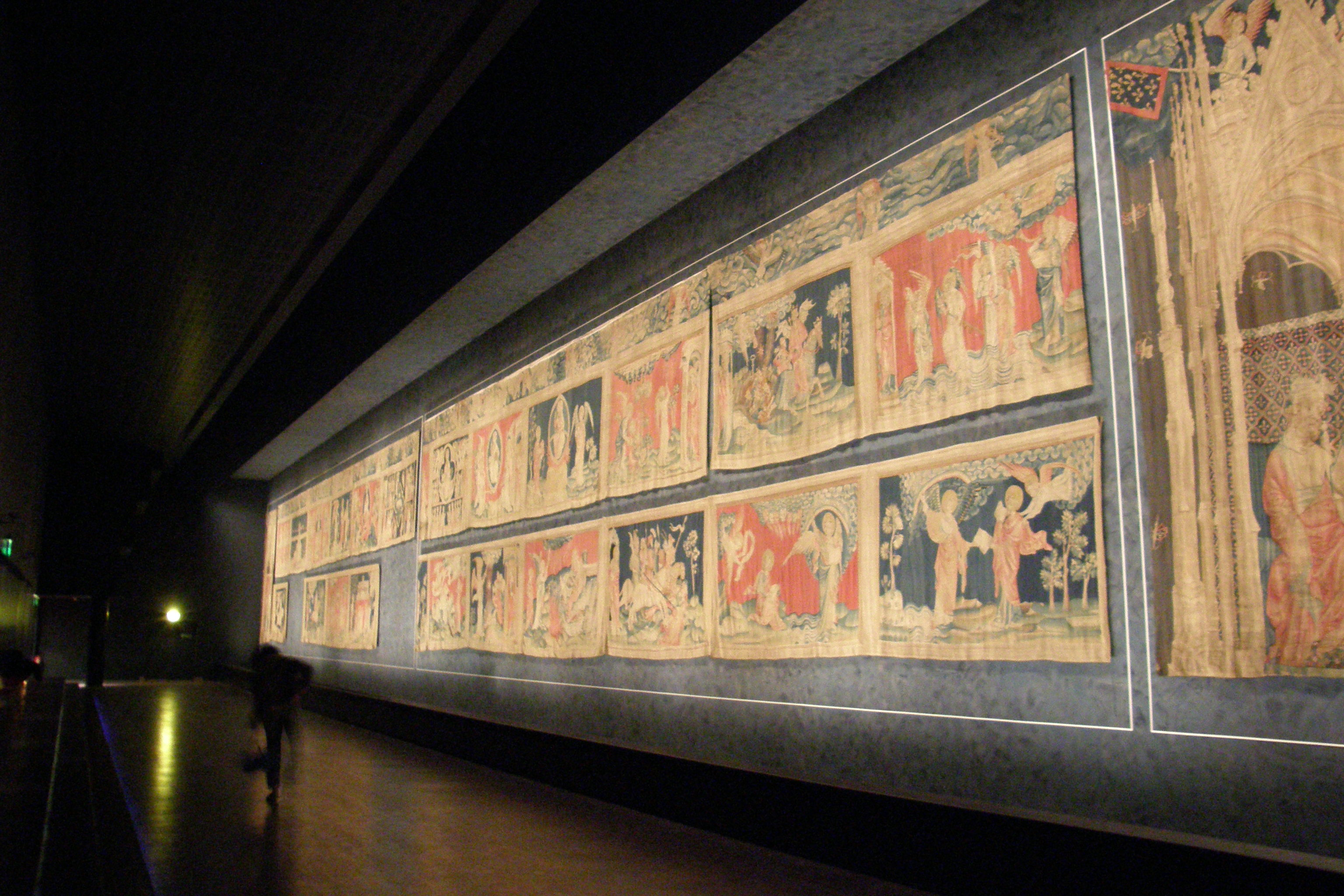 Part of the Apocalipse Tapestry at the Château d'Angers